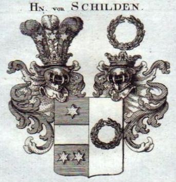 coat of arms Hn. von Schilden. 1738